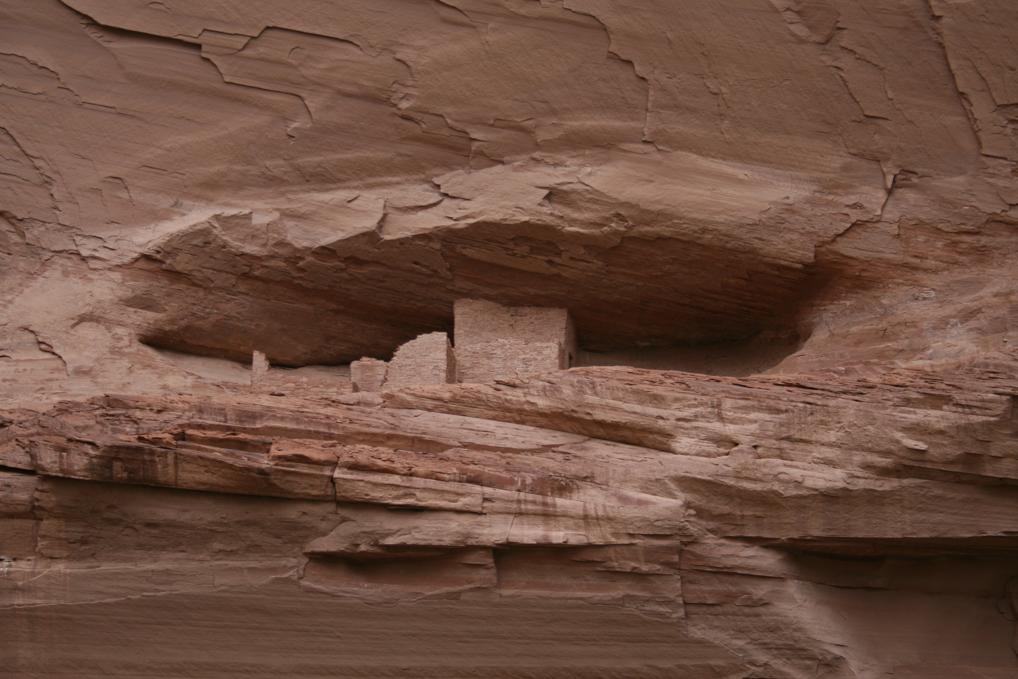 Canyon de Chelly National Monument, Arizona Close view of Ledge Ruin.